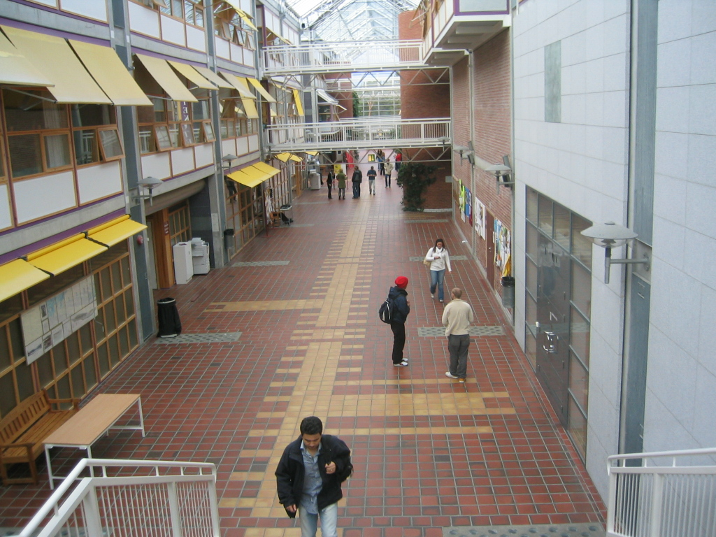 A picture taken at Dragvoll, a part of the NTNU University in Trondheim. Architect: Henning Larsen.